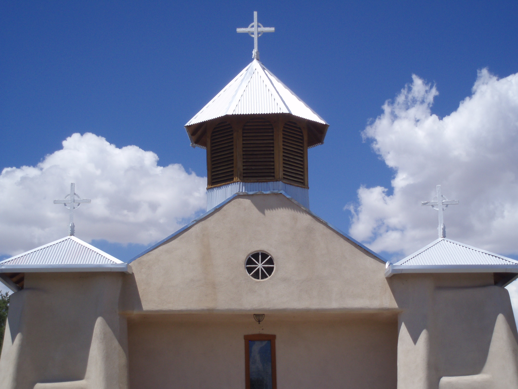 Our Lady of Guadalupe church, Peralta, NM